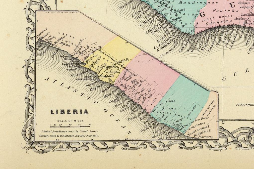 By 1856, Liberia was an independent country, recognized by the French but not by the United States. U.S.Congressmen did not want to be put in the position of having to receive a Black foreign ambassador. Policy was not reversed until Pres. Abraham Lincoln recognized Liberia.